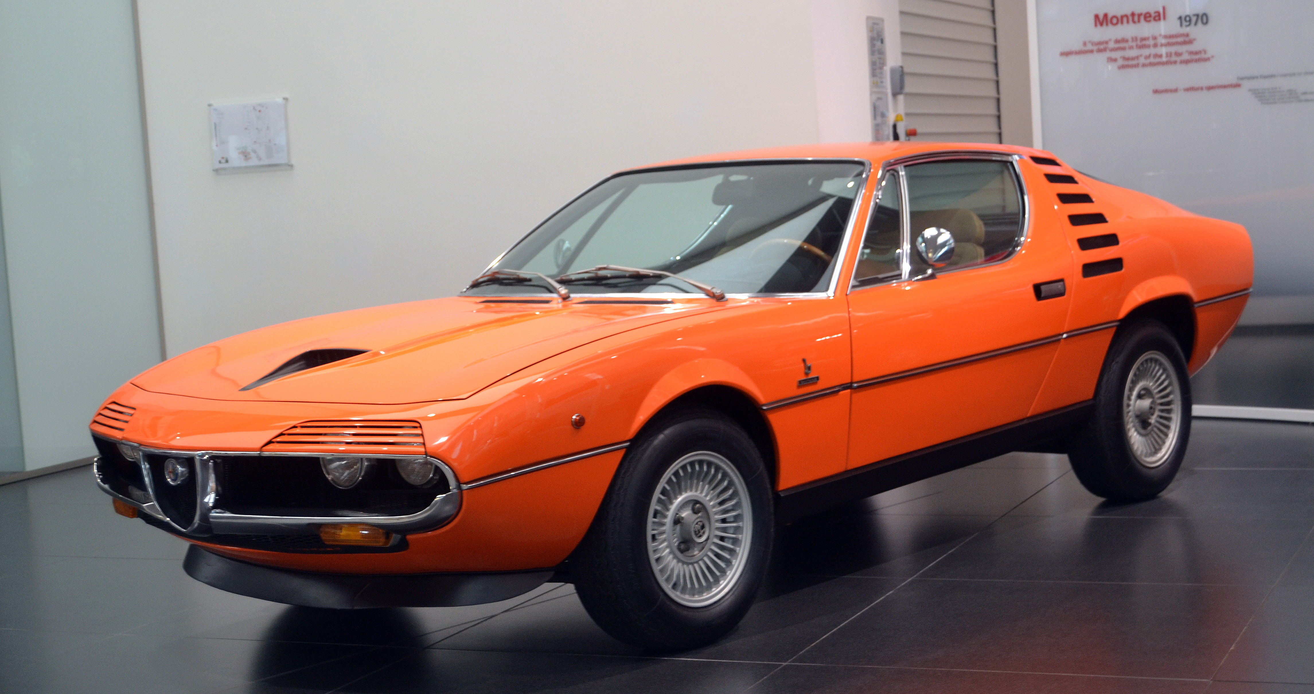 Alfa Romeo Montreal, seen at Museo Storico Alfa Romeo in Arese, Italy. Picture taken 2017-08-11, modifyed 2019-07-03